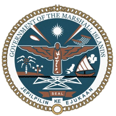 Coat of arms of the Republic of Marshall Islands